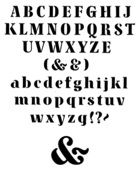 Bastion typeface (1976) by Zbyněk Kočvar